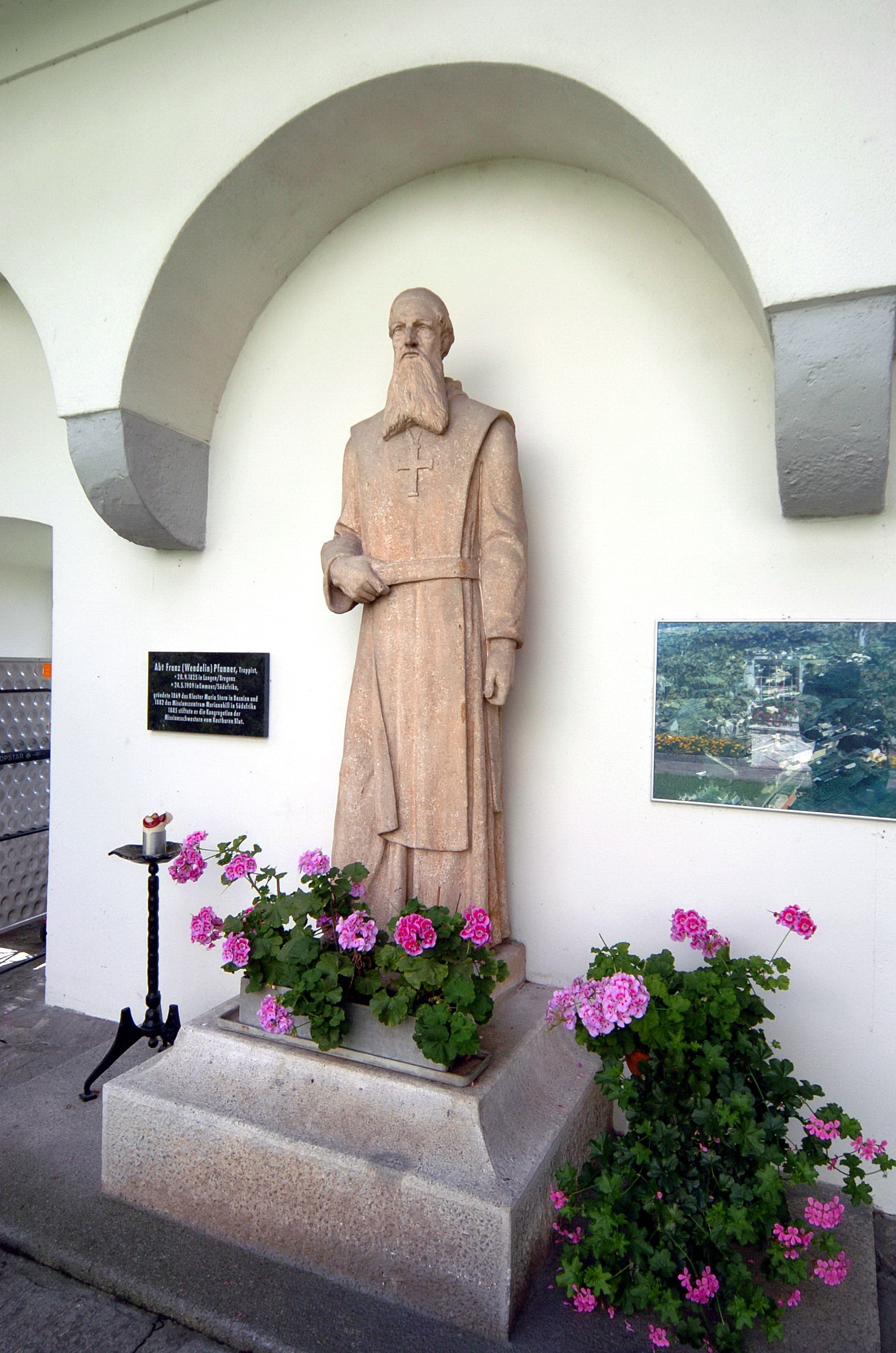 Statue of the founder abbot Franz Pfanner at the yard of castle Wernberg on Klosterweg #2, municipality Wernberg, district Villach Land, Carinthia, Austria, EU